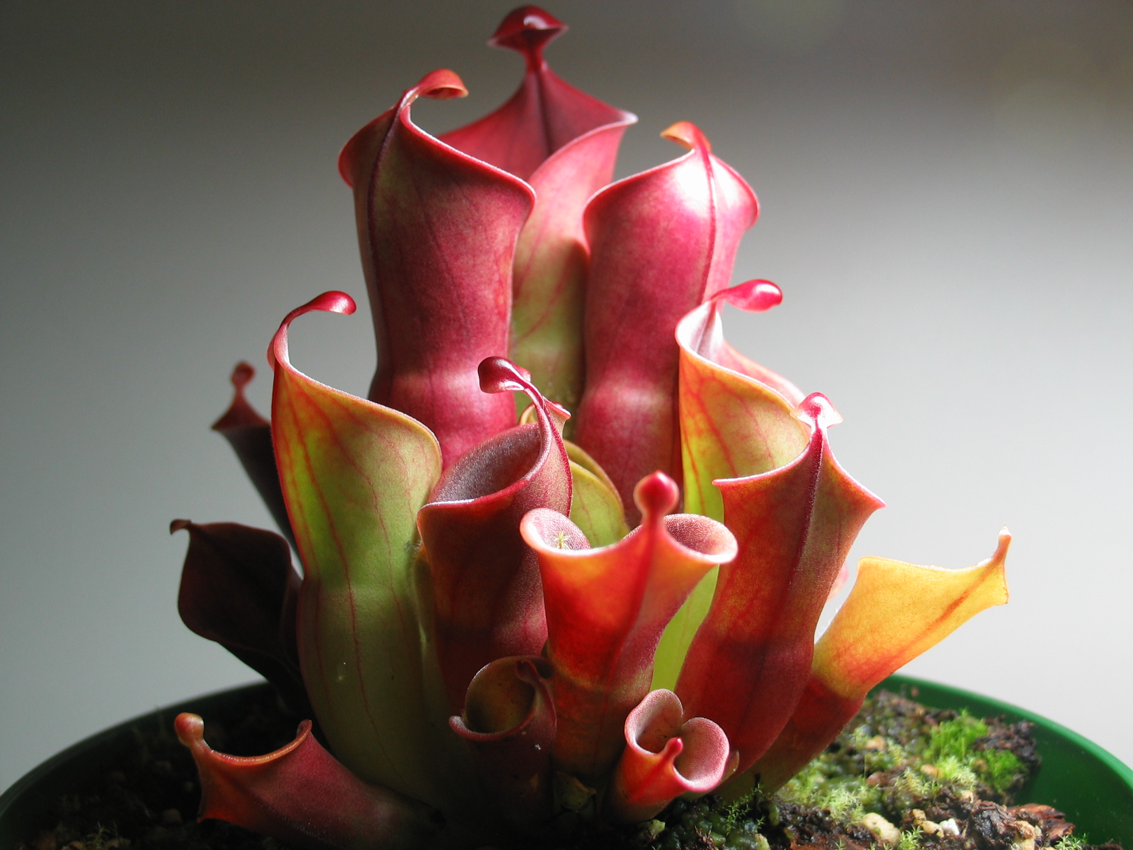 heliamphora minor var minor